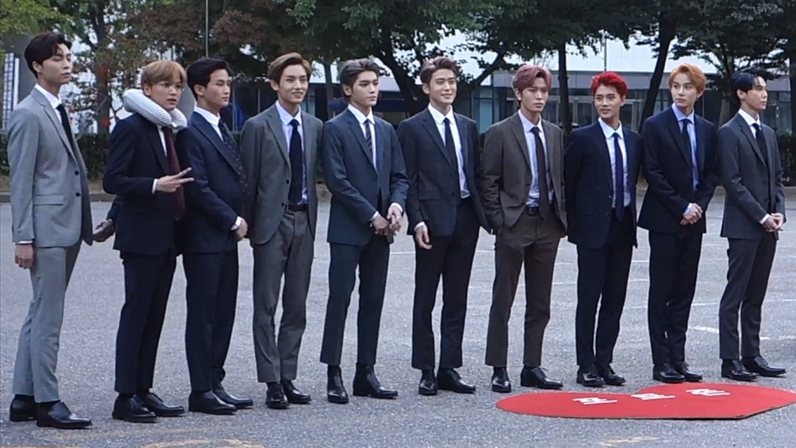 NCT 127 going to a Music Bank recording on October 12, 2018.